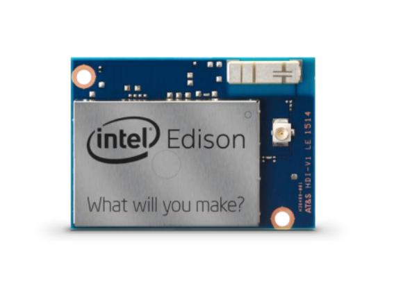 top side view of Intel Edison board with metal cover